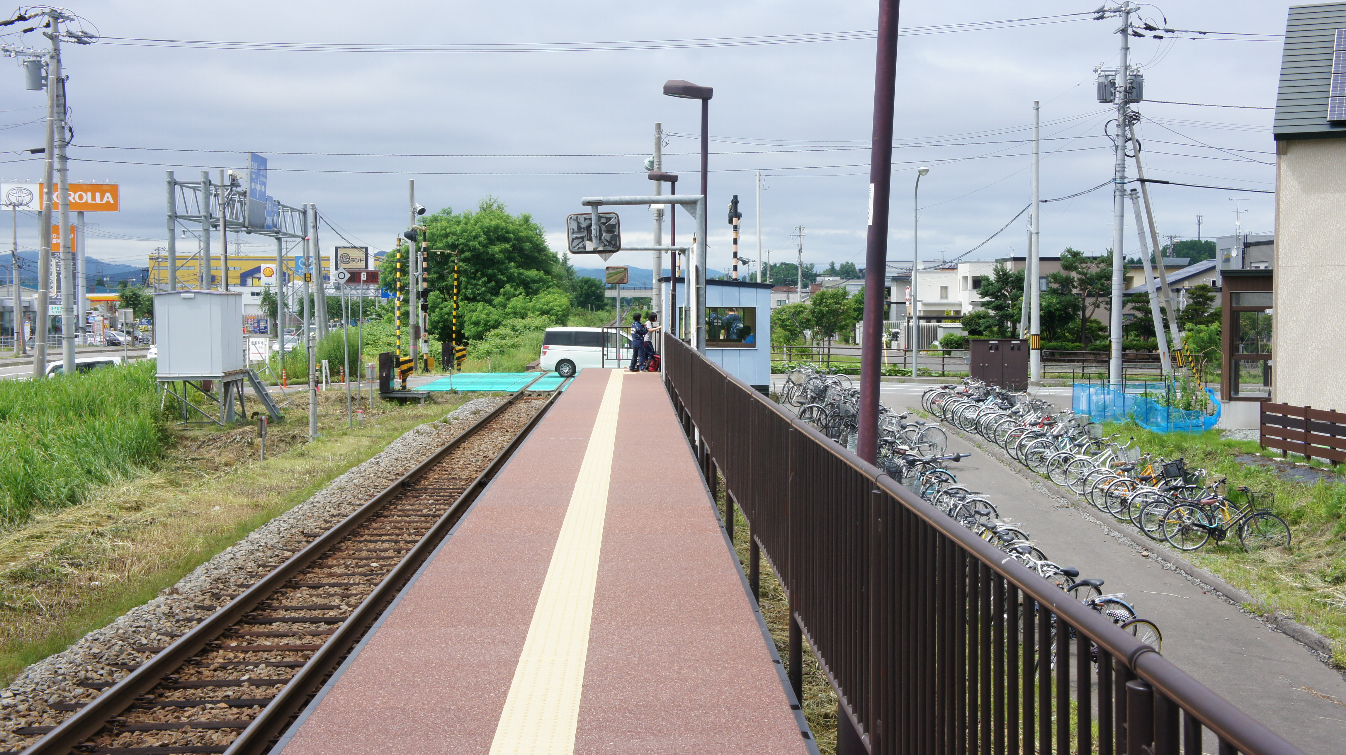 The platform at Nishi-Goryo Station on the Furano Line in Hokkaido, Japan